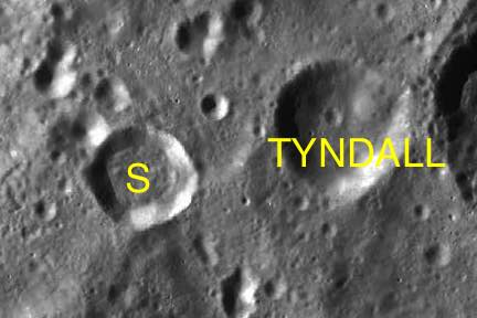 Part of the chart LAC-117 used for the presentation